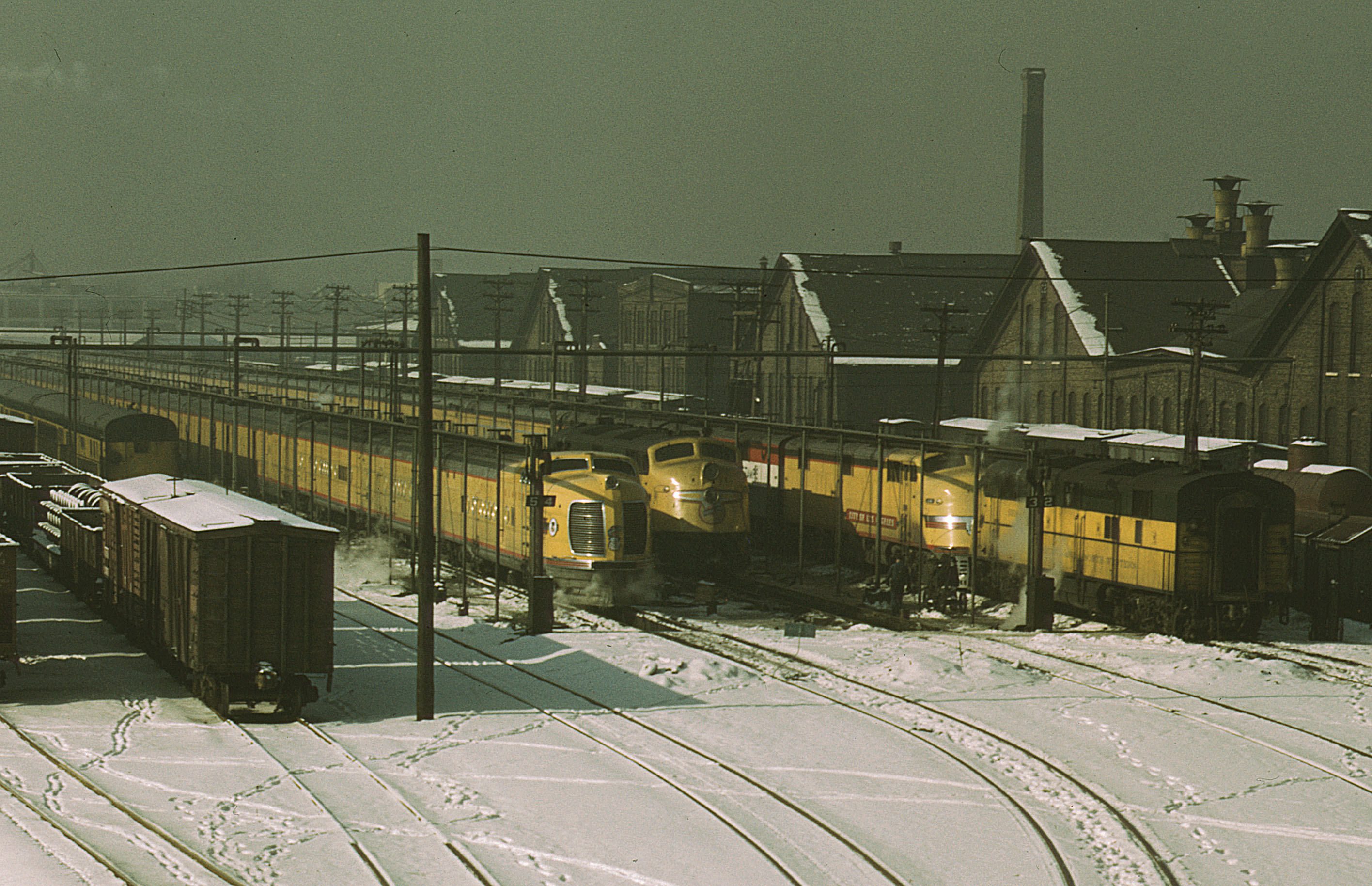 Chicago and Northwestern Railway locomotive shop at Proviso Yard, near Chicago, Illinois. Several early streamliners are there, including one of M-10003 through 6 and what looks like several early E-units. One is an 1941 E6 lettered for the joint C&NW/Union Pacific "City of Los Angeles", and another is a C&NW E6. Cropped photo.